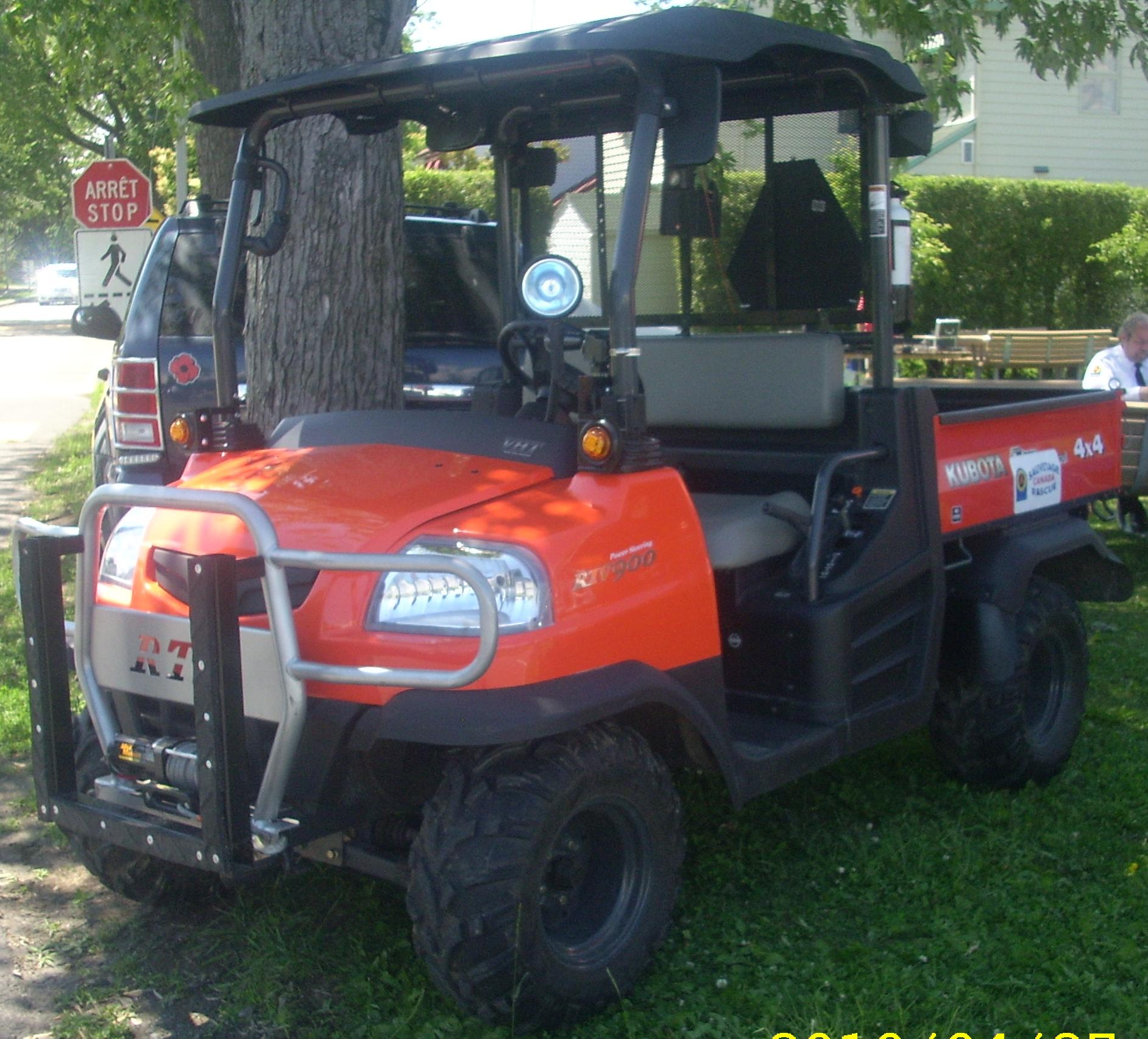 Kubota RTV900 photographed in Ste. Anne De Bellevue, Quebec, Canada at the 2010 Ste. Anne De Bellevue Veteran's Hospital Auto Show.